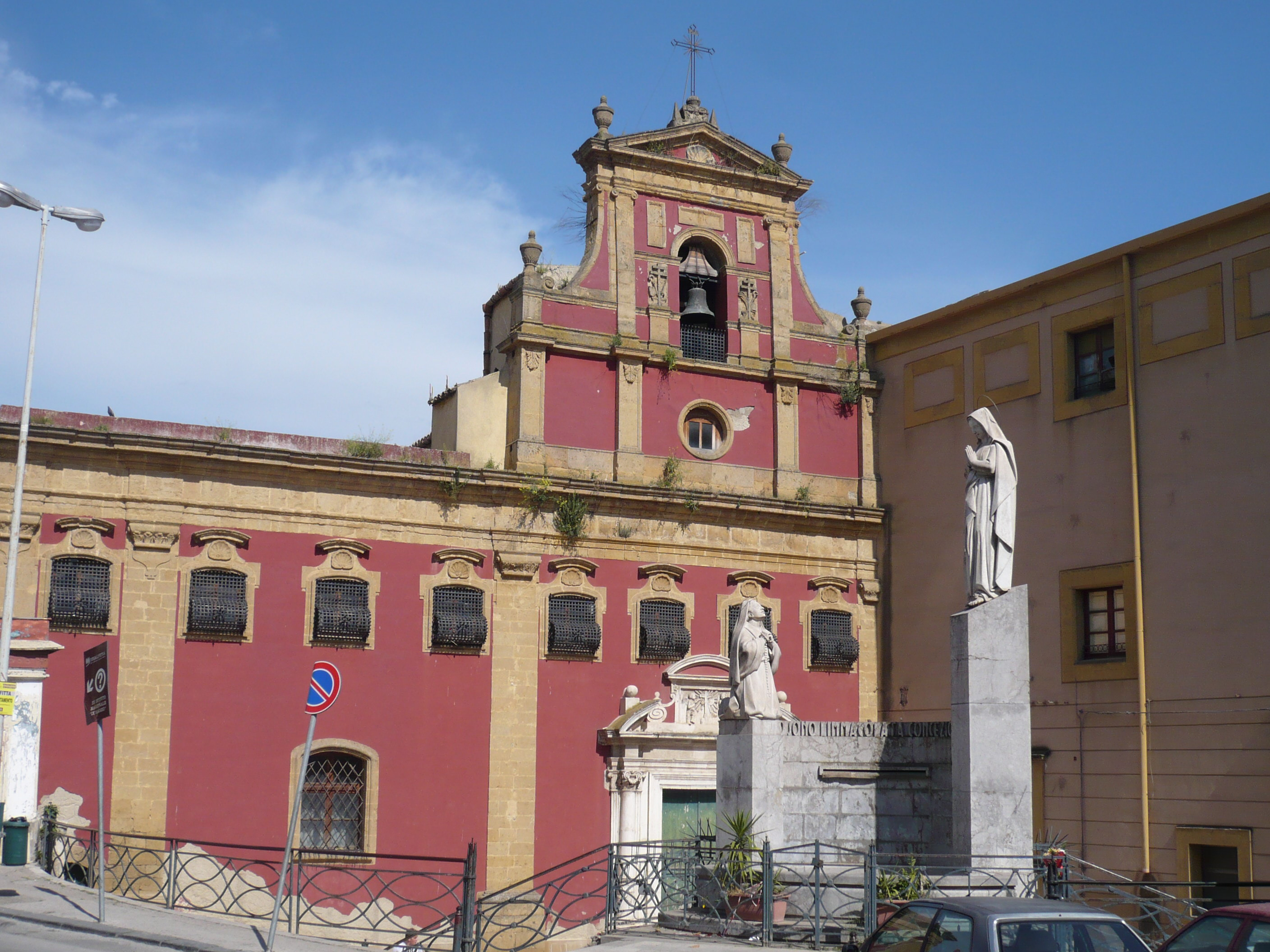 Single nave church. the 17th century facade has an austere style and is made precipus by blocks of sandstone